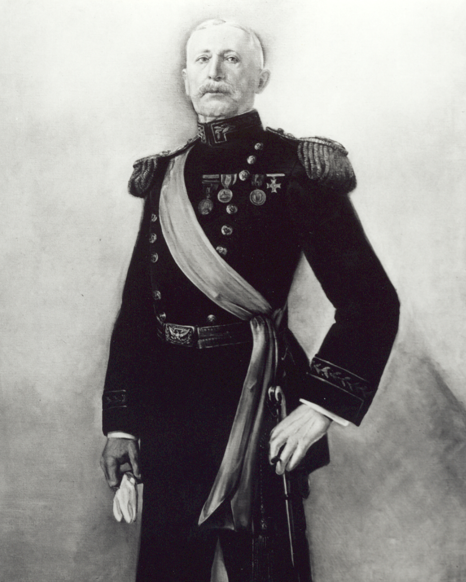 General George F. Elliott, USMC, Commandant of the Marine Corps